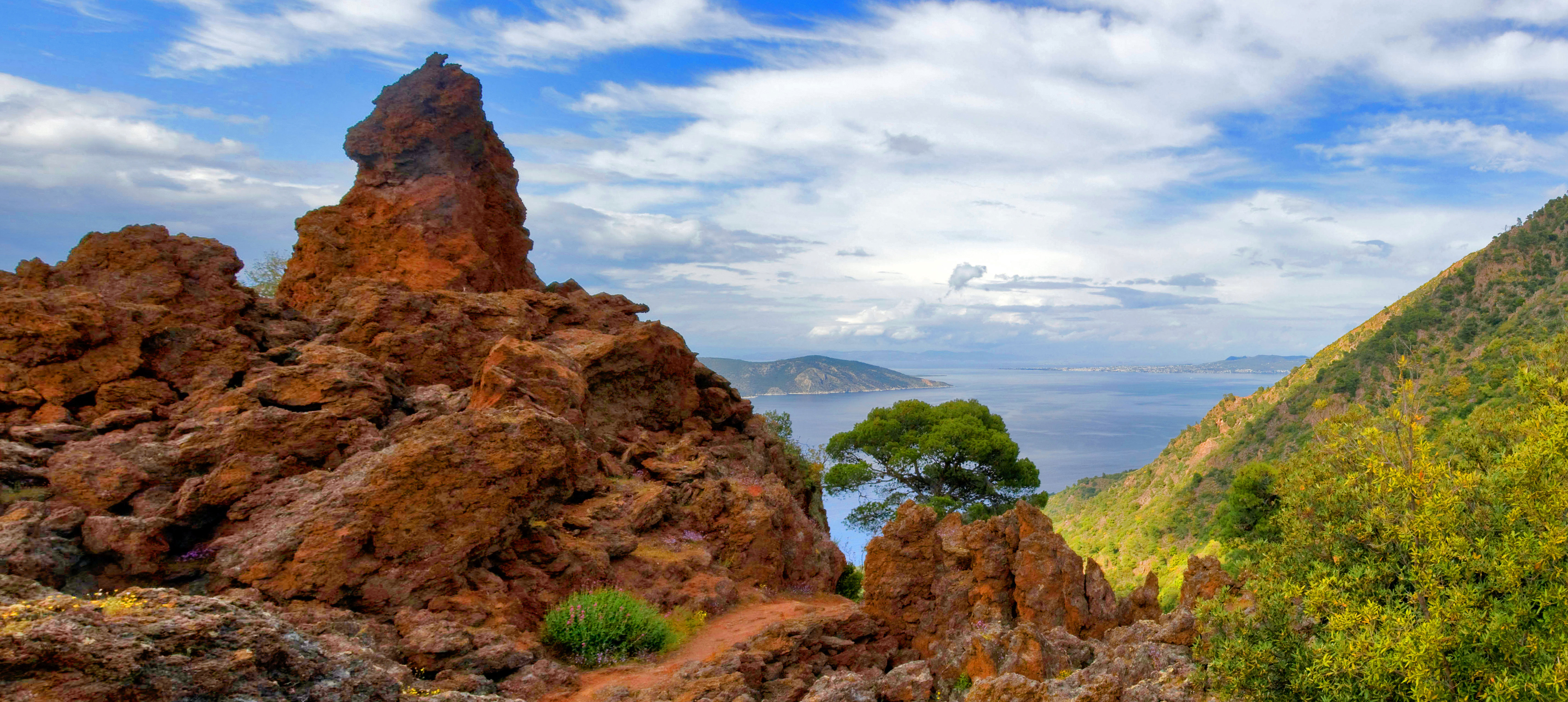 Lava field at Methana